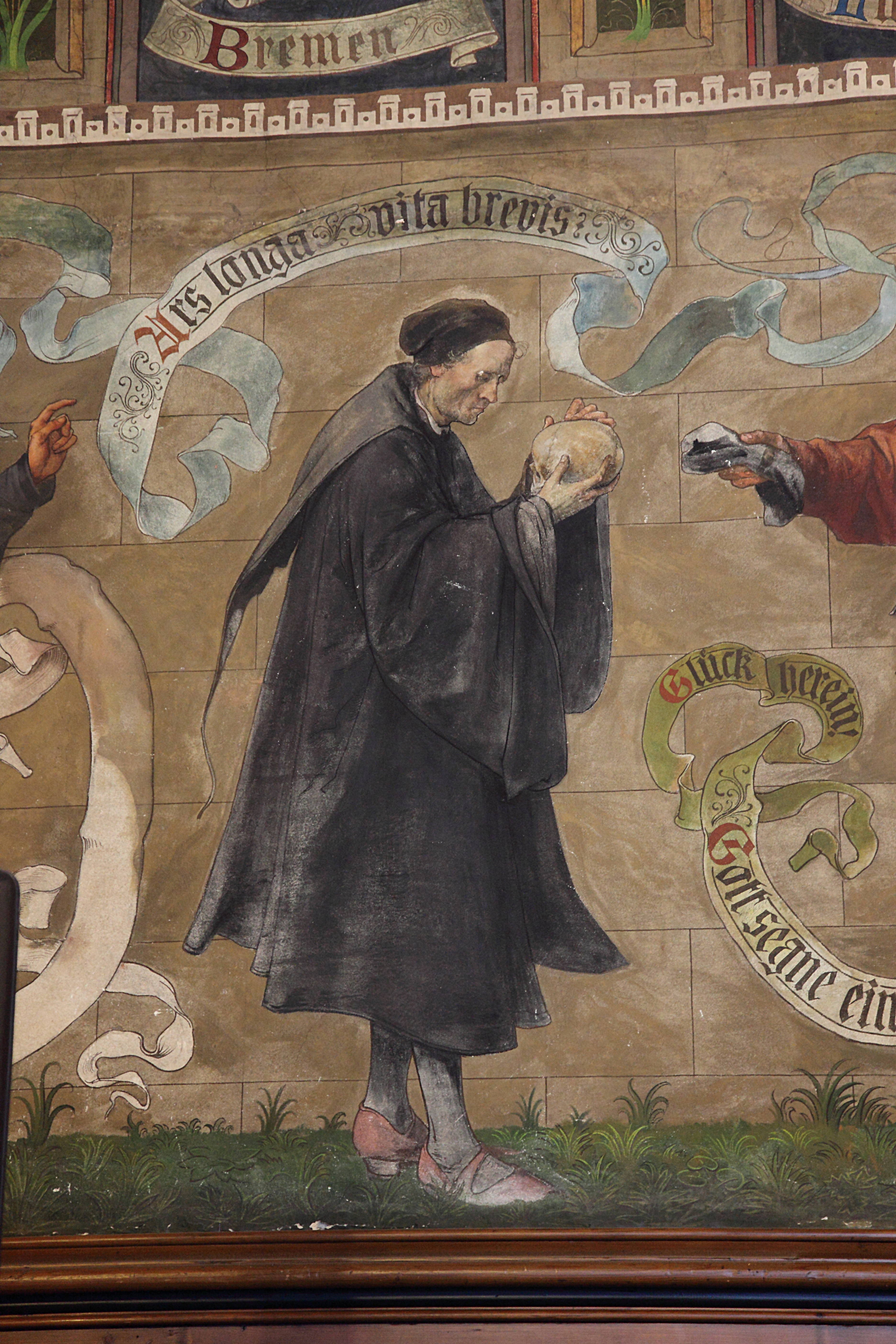 Interior of the old town hall in Gõttingen, Niedersachsen, Germany